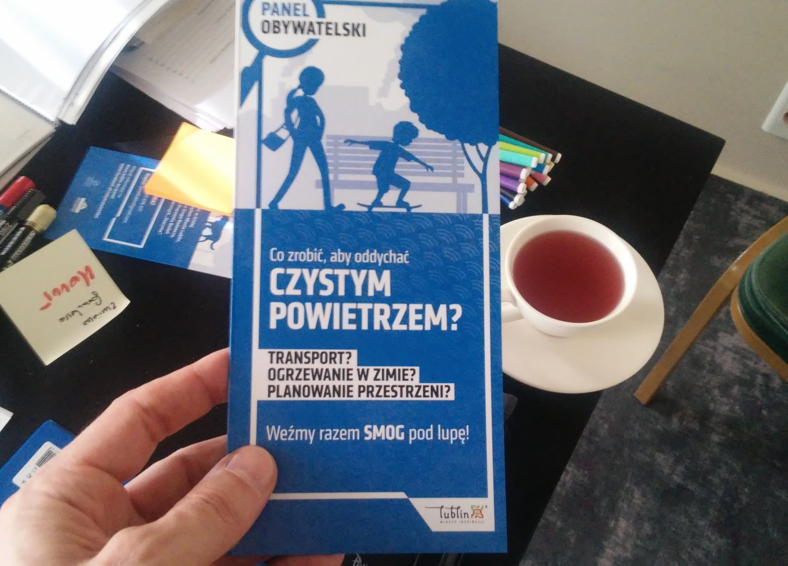 Citizens' assembly in Lublin - leaflet.